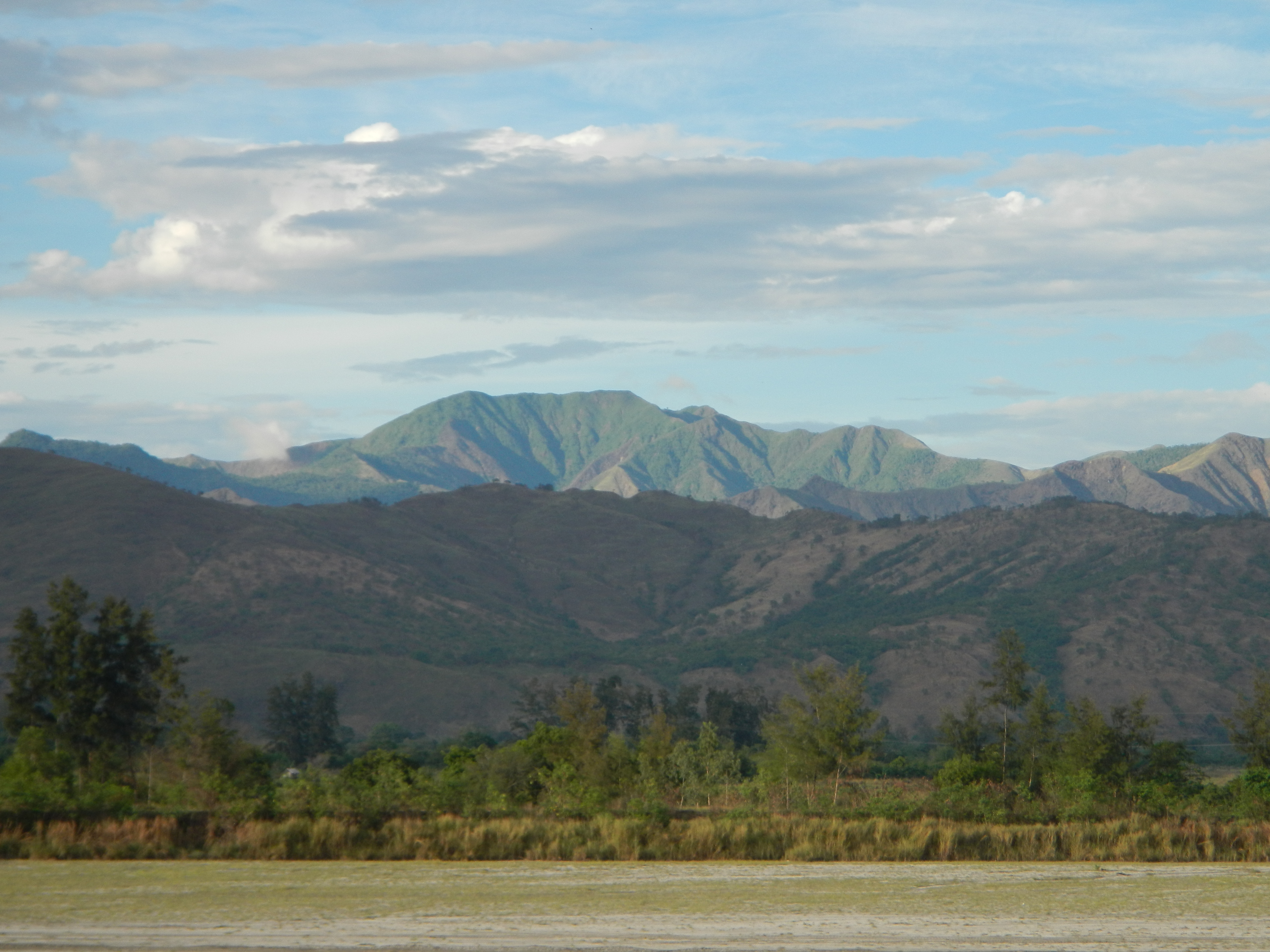 P240-milion Maculcul bridge[1]Coordinates: 15°2'8"N 120°4'31"E[2]PGMA inaugurates P240-million Zambales Bridge SAN NARCISO, Zambales (20 January) -- President Gloria Macapagal-Arroyo flew to this seaside town this morning to inaugurate the new P240-milion Maculcul Bridge linking the Zambales towns of San Narciso and San Felipe. San Narciso, Zambales[3] is a 4th class municipality in the province of Zambales, Philippines. It is famous for its beaches that is suited for surfing. The Philippine Merchant Marine Academy[4] or PMMA is located here. San Narciso also houses one of the best college institutions in southern Zambales, Magsaysay Memorial College, Zambales academy, one of the oldest secondary education institution in the province, it is where the former president Ramon Magsaysay took his secondary education.[5]Coordinates: 14°59'59"N 120°6'0"E Area Code: 4765[6] One of its lankmark is the San Sebastian Catholic Church (San Narciso, Zambales) [7]Coordinates: 15°0'57"N 120°4'49"E[8][9]Southern Vicariate Vicar Forane: Rev. Fr. Audencio Mozo, Jr. Parish of San Sebastian (F-1849) San Narciso, 2205 Zambales Population: 24,070; Catholics: 15,198 Titular: San Sebastian, January 20 Parish Priest: Rev. Fr. Villafuerte suceeding Juan Pastor, Jr. and Rev. Edwin Mertola